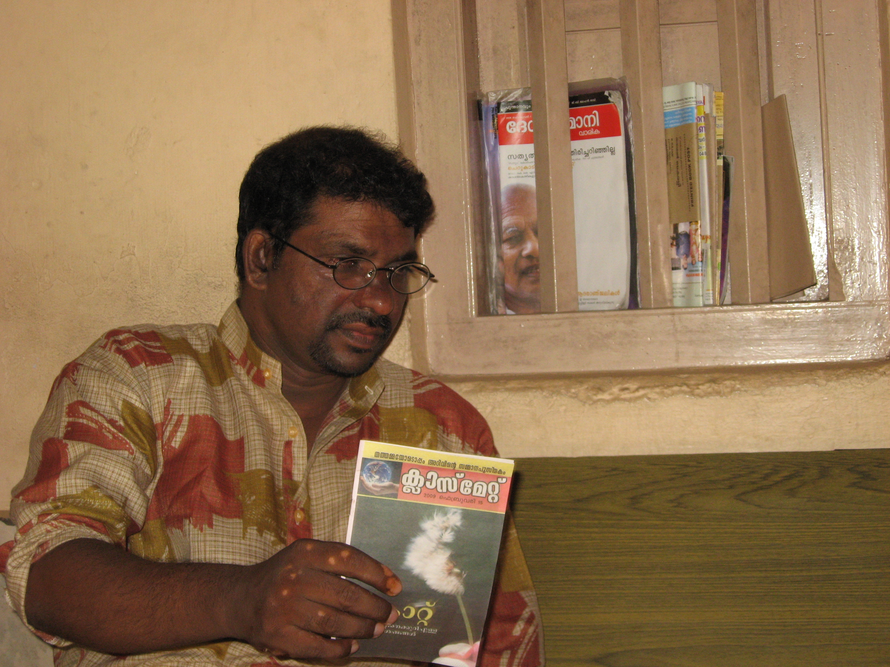 well known malayalam poet, at blathur